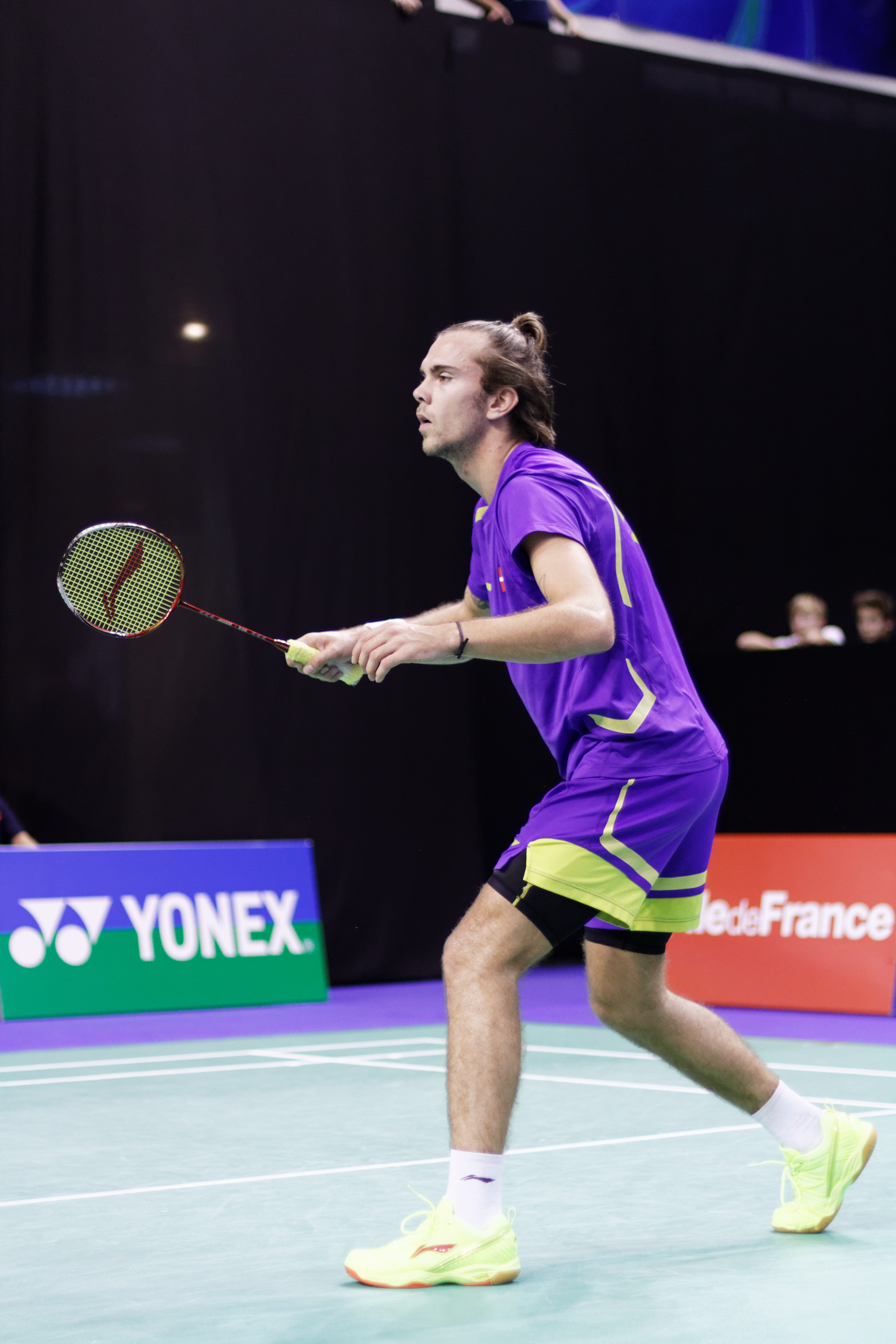 2013 French open. Men's singles eightfinal. Hans-Kristian Vittinghus vs Jan Ø. Jørgensen.